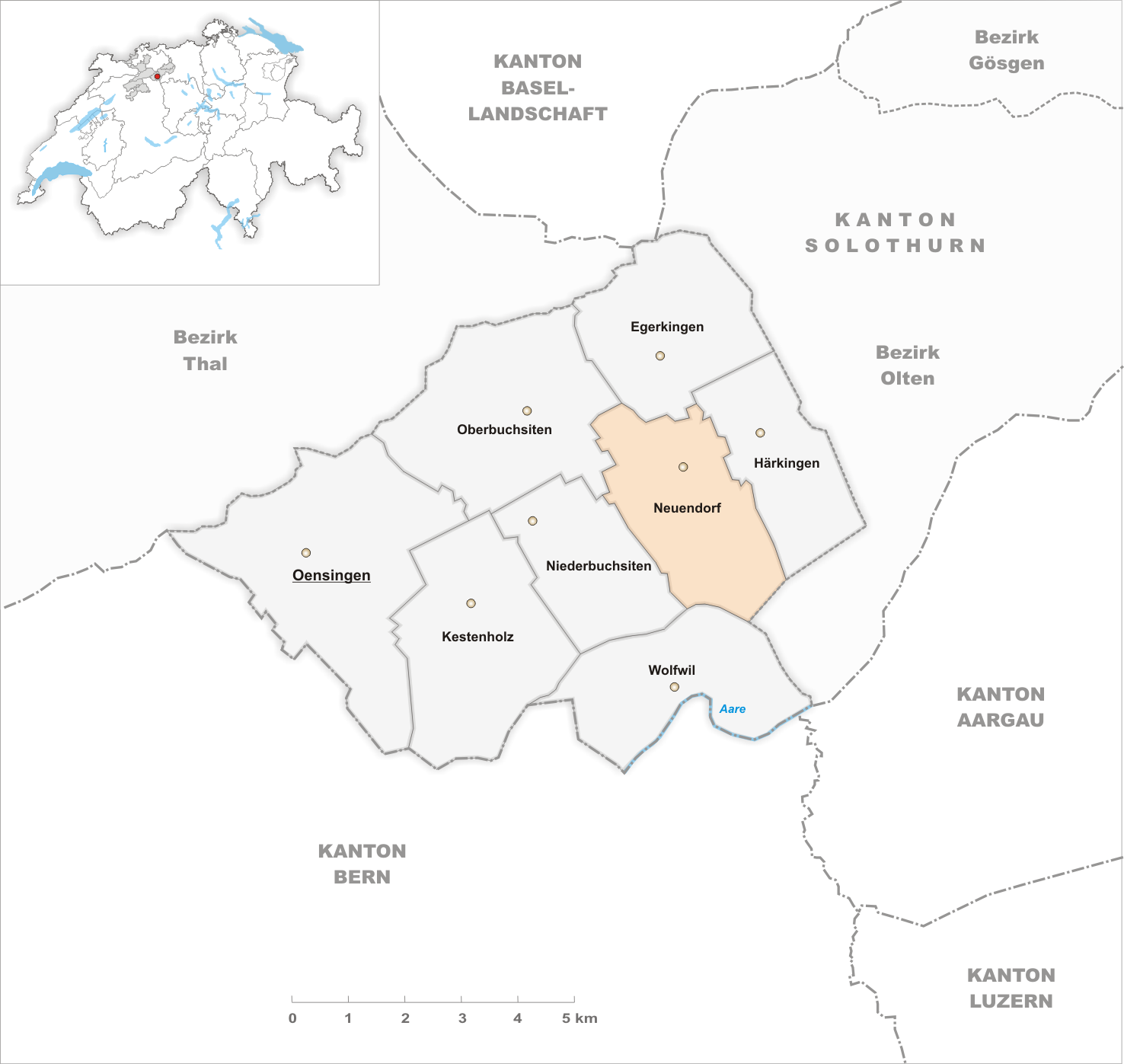 Municipality Neuendorf